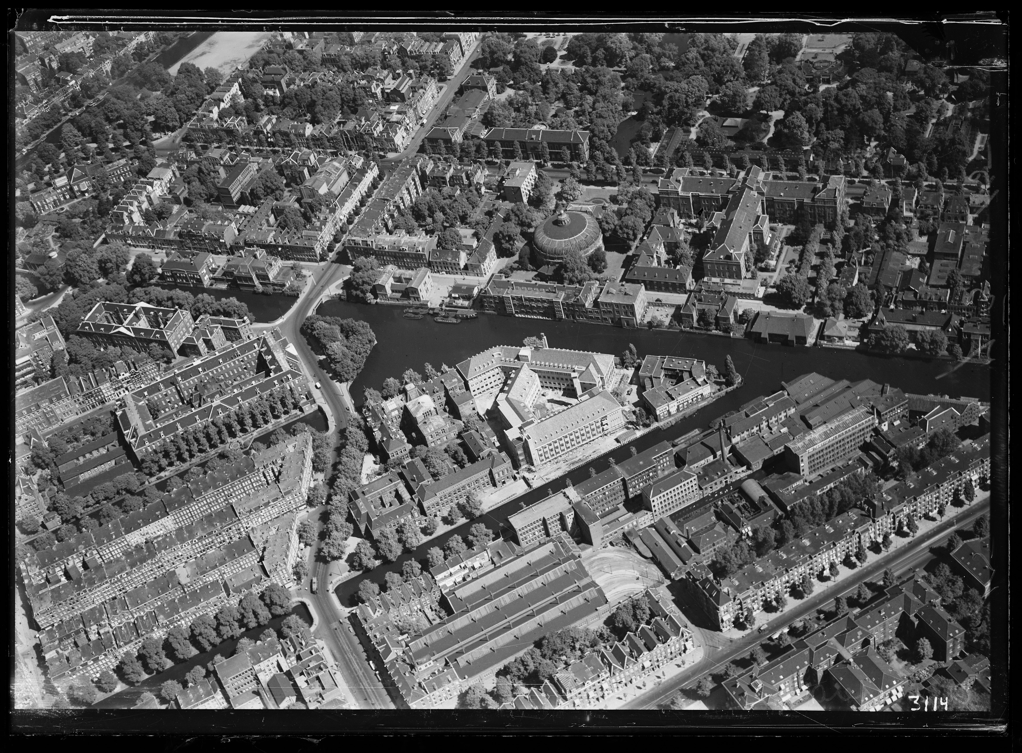 Aerial photograph of Amsterdam, The Netherlands. Artis, Plantage Muidergracht, Roetersstraat, Sarphatihuis.